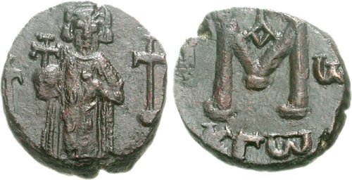 Æ Follis (4.44 g, 8h), Class 6. Struck in Carthage in 687-695 AD during the first reign of the byzantine king Justinian II (685-695 AD). Justinian, crowned, standing facing, holding globus cruciger and akakia, crown topped with cross; on either side, long cross set on globus / Large M; monogram above, I ω across field; KΓω.